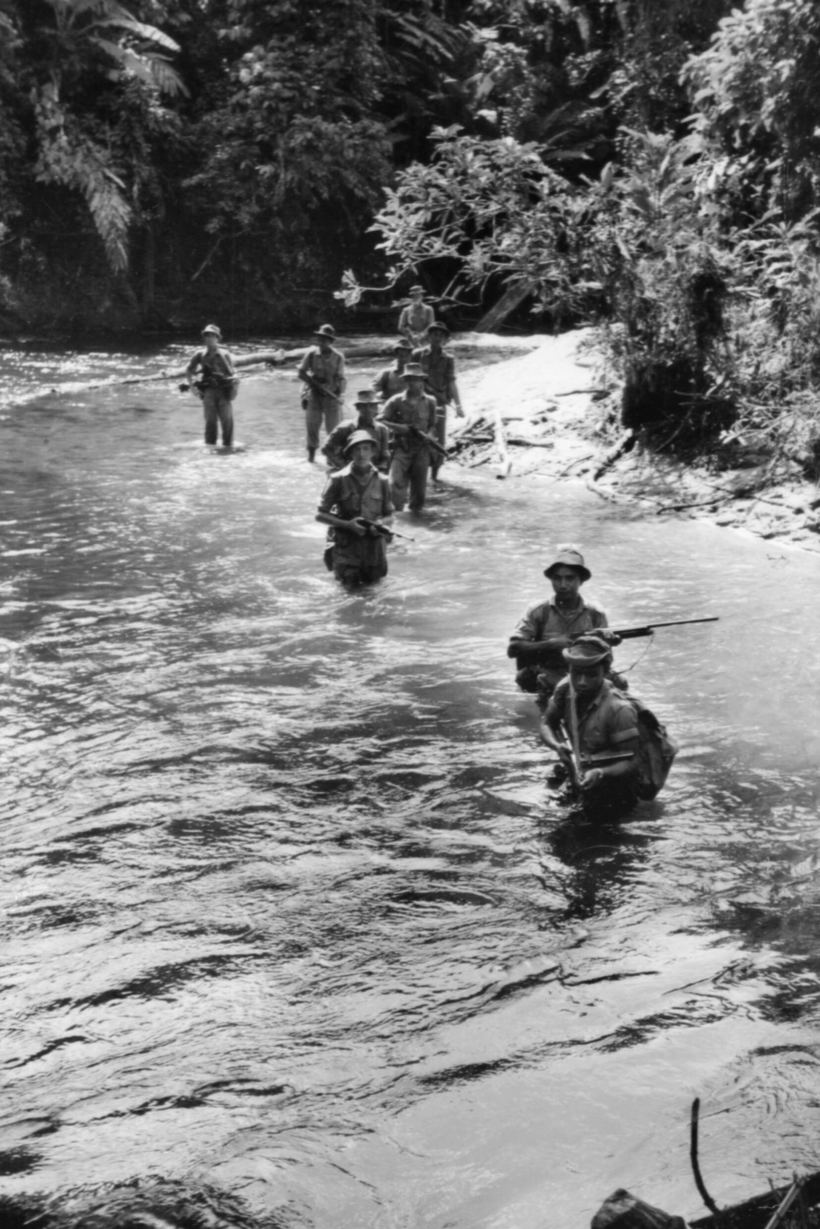 The Malayan Emergency 1948-1960 Men of the Malay Police Field Force wade along a river during a jungle patrol in the Temenggor area of northern Malaya.